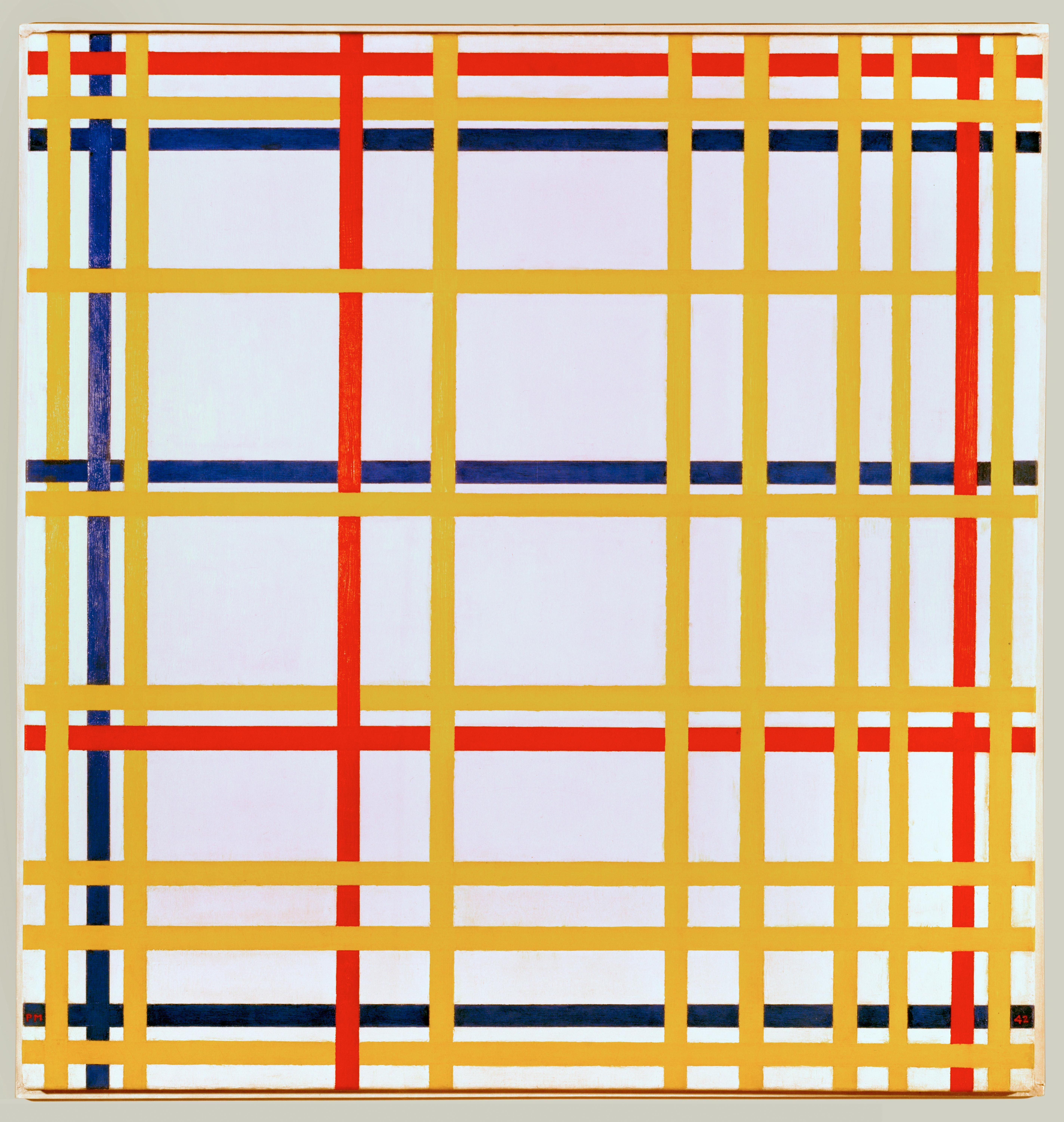 New York City I (1942), Paris: Musée National d’Art Moderne – Centre Georges Pompidou.